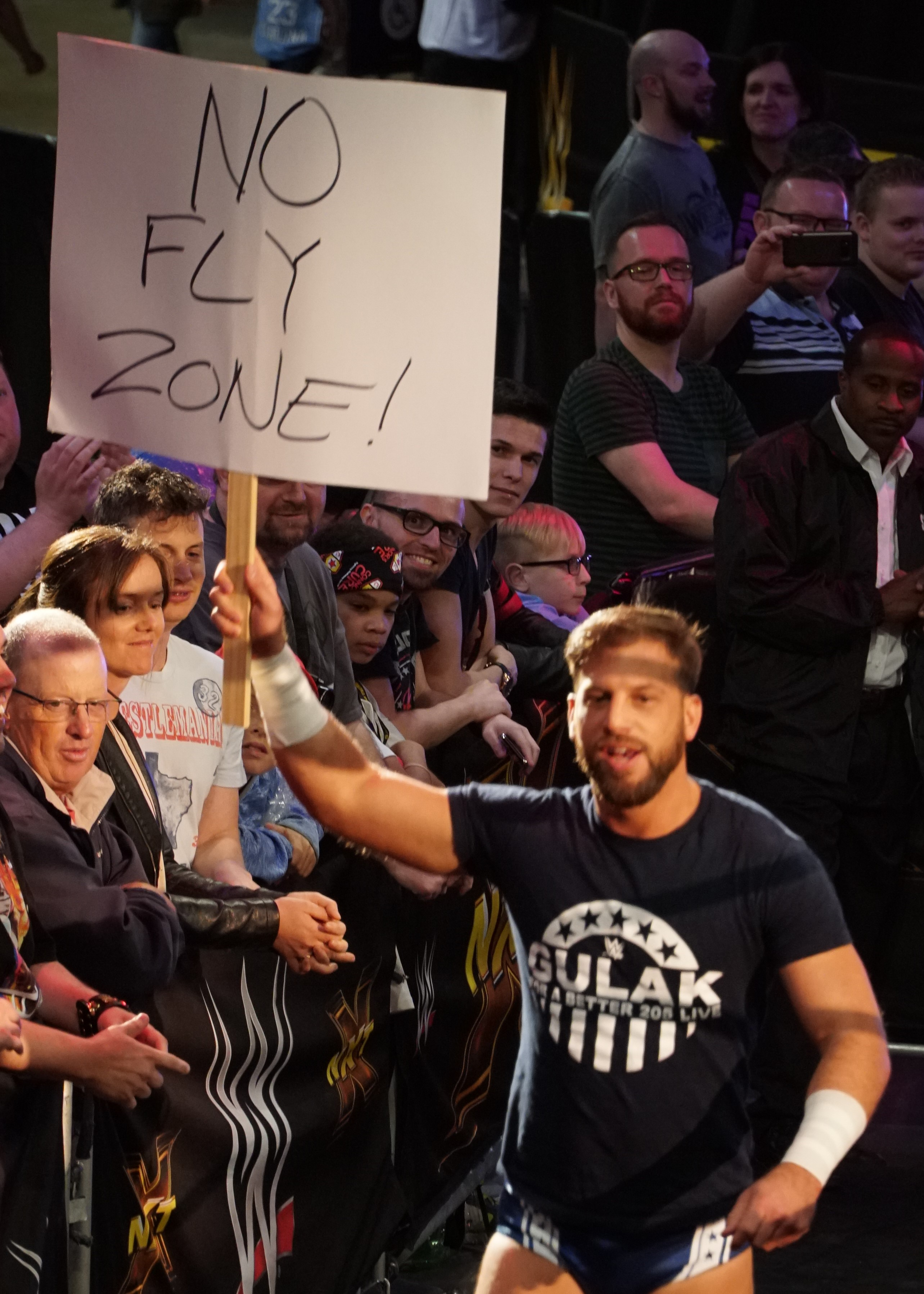 Drew Gulak at WWE Axxess campaigning for a No Fly Zone in WWE.